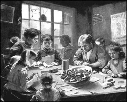 Picture of matchmakers in The Child Slaves of Britain by Robert Sherard (1905)